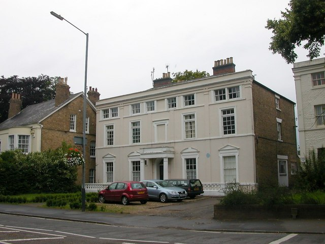 Rugby-Bilton Road Gilshaw Lodge which is now divided into apartments. It was the home of Dennis Gabor who lived here 1936-48 and invented holography in 1947. He was awarded the Nobel Prize in 1971.